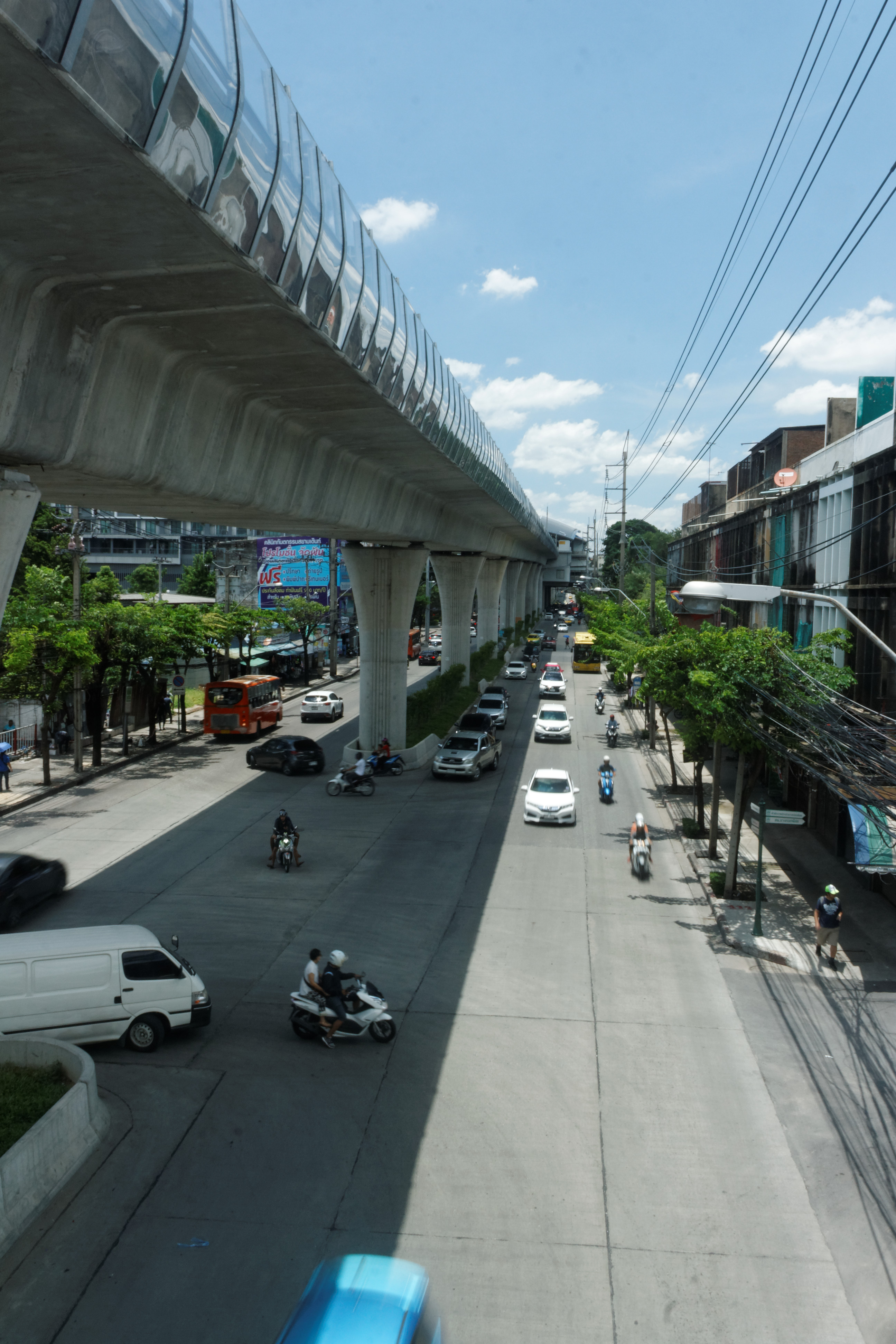 Charansanitwong Road from the pedestrian bridge near Makro